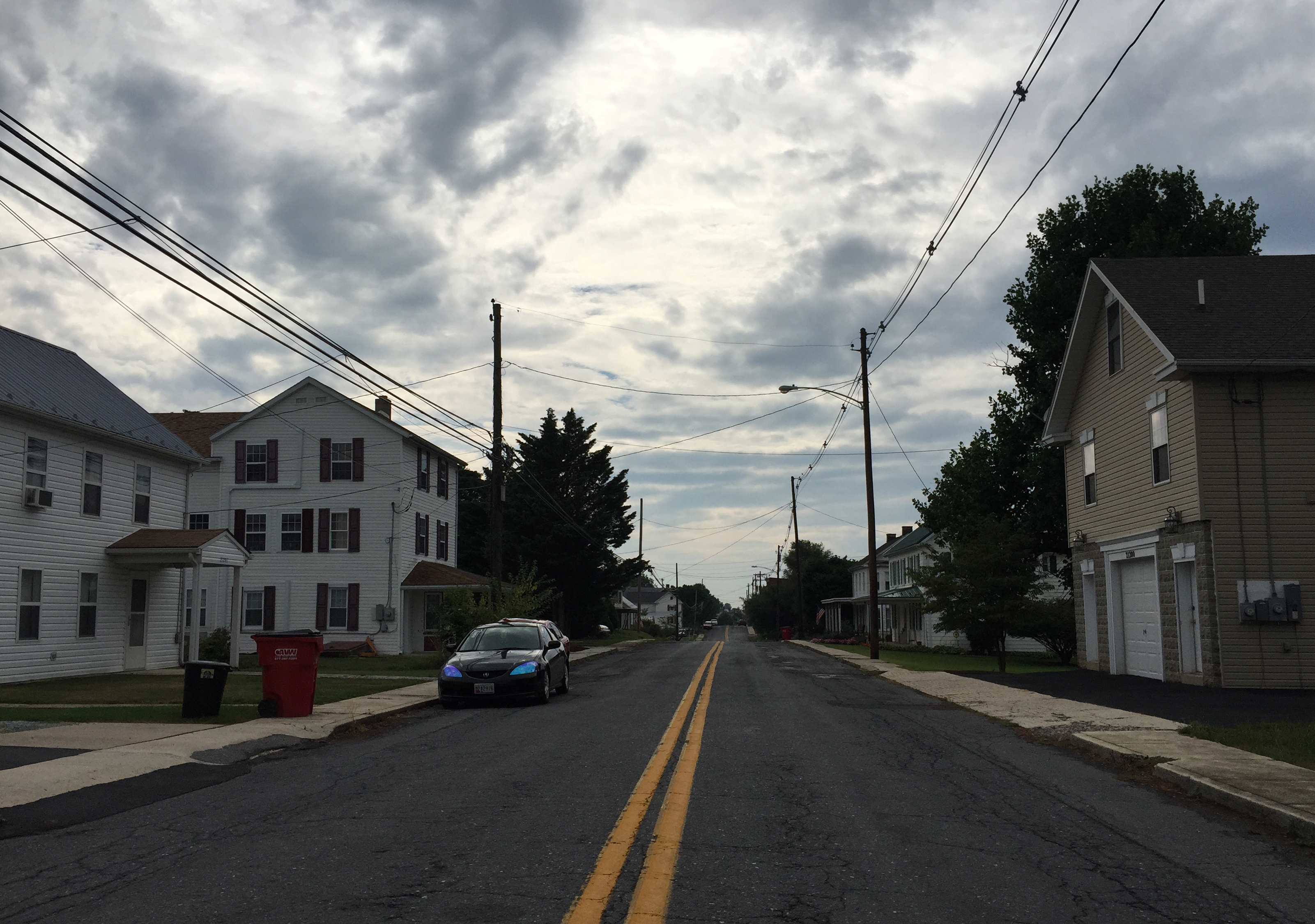 View west along Maryland State Route 804 (Twin Springs Drive) between Waltz Road and White Hall Road in Chewsville, Washington County, Maryland